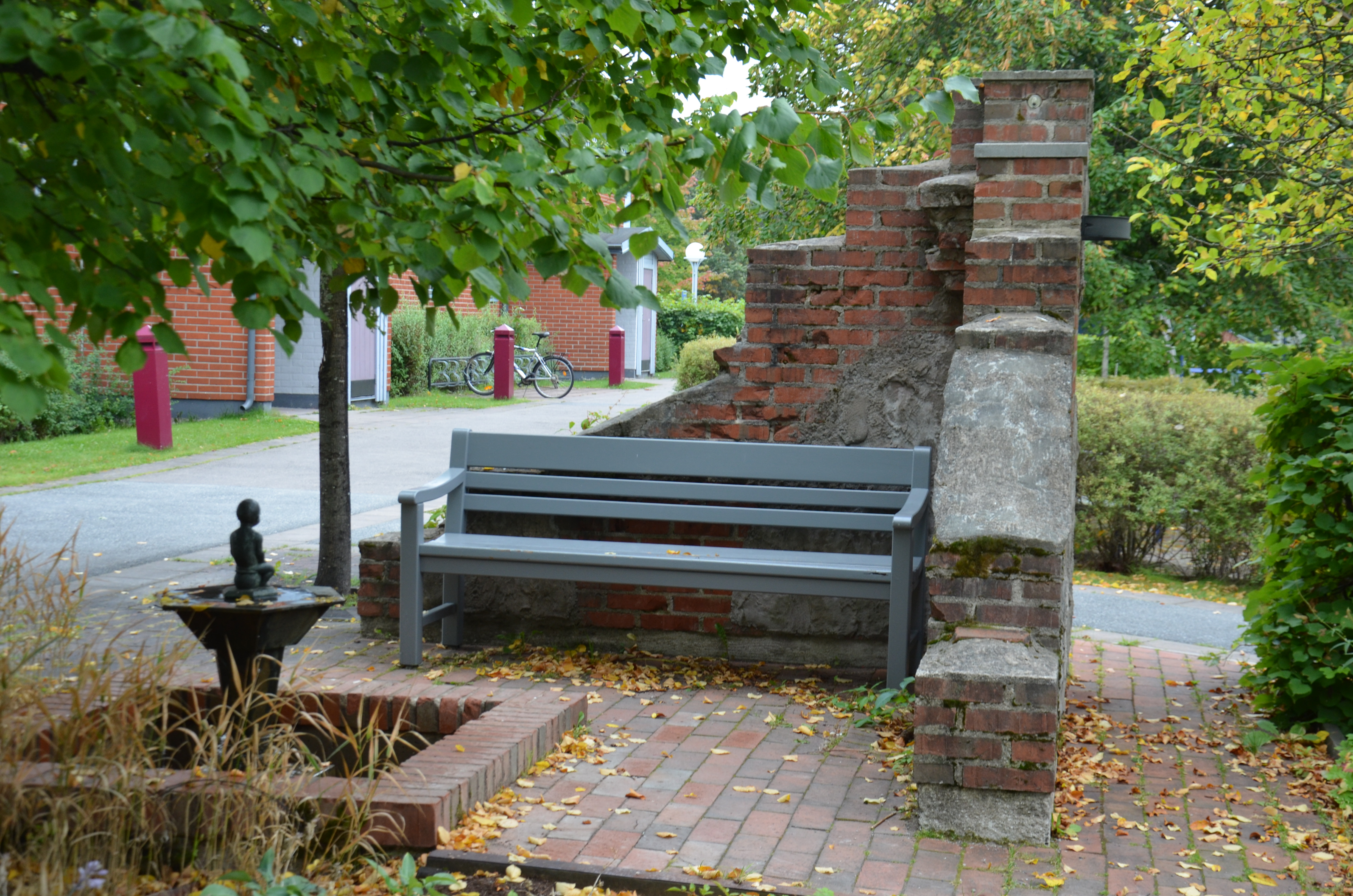 Kerub av Anna Molander i Hällefors